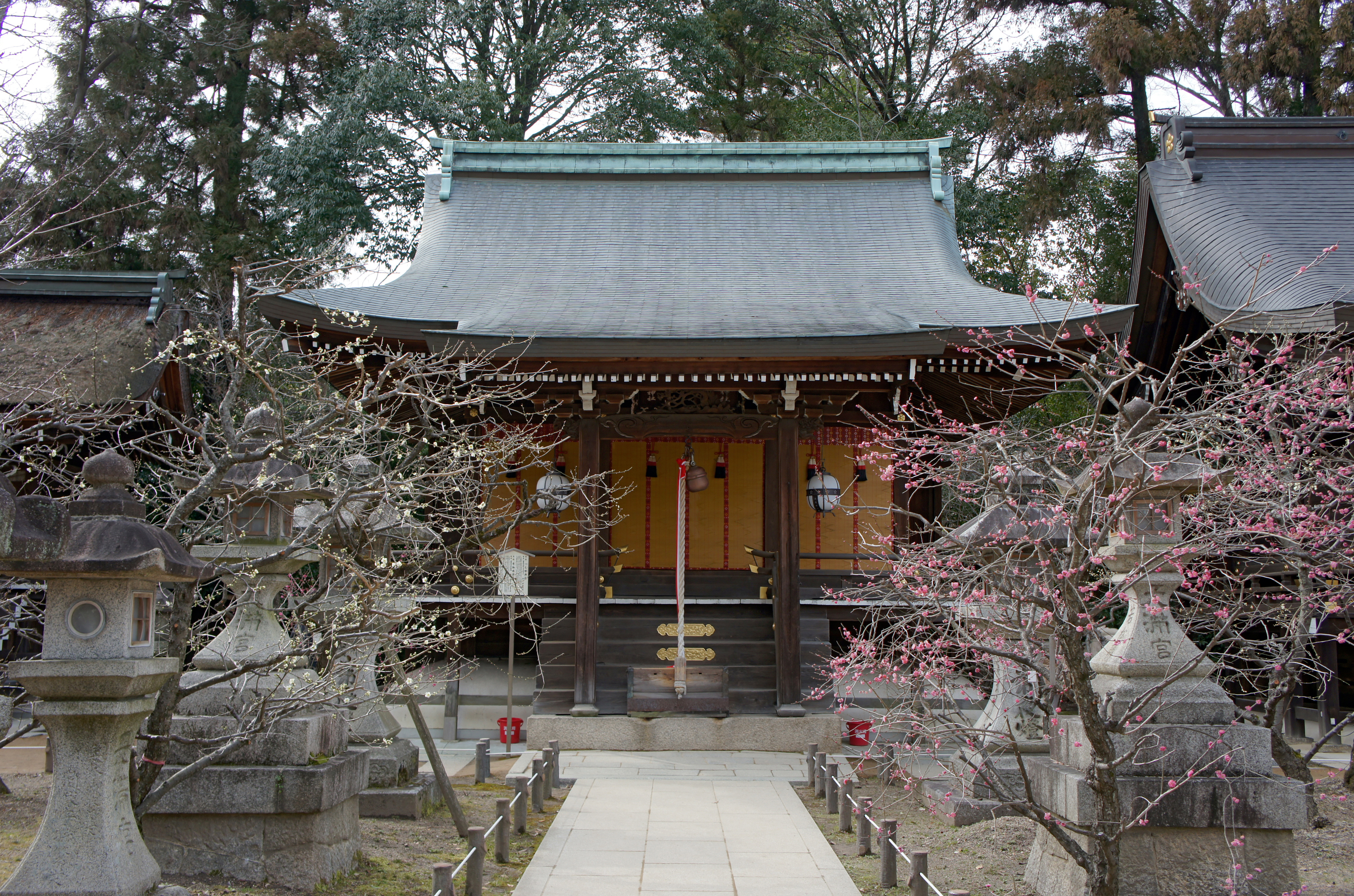 Kitano Tenman-gū in Kamigyō-ku, Kyoto, Kyoto Prefecture, Japan